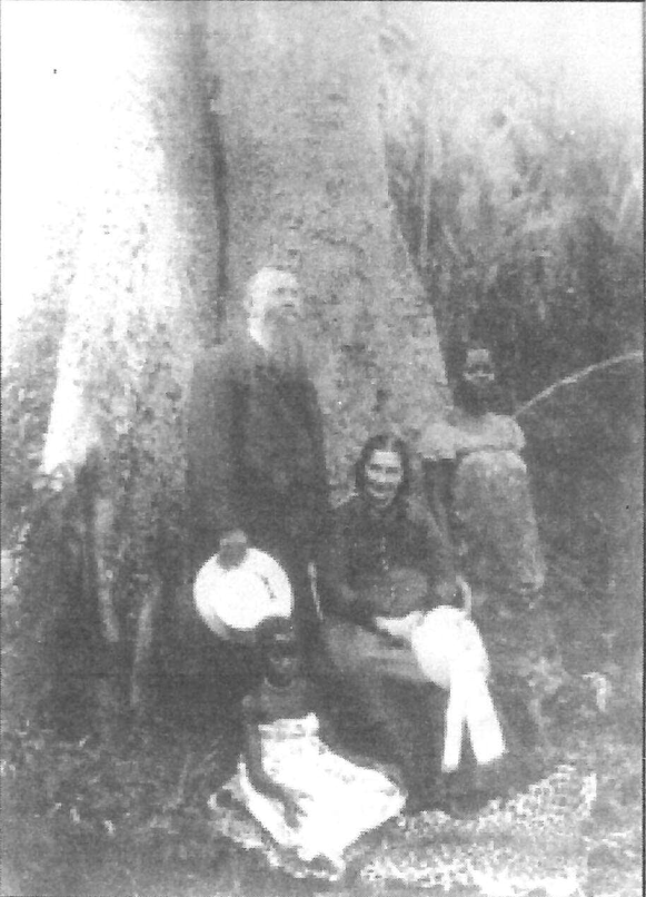 A scanned digitised copy of a 19th century photo of the Ramseyer family while in captivity in the Asante empire. The identity of the photographer is unknown.